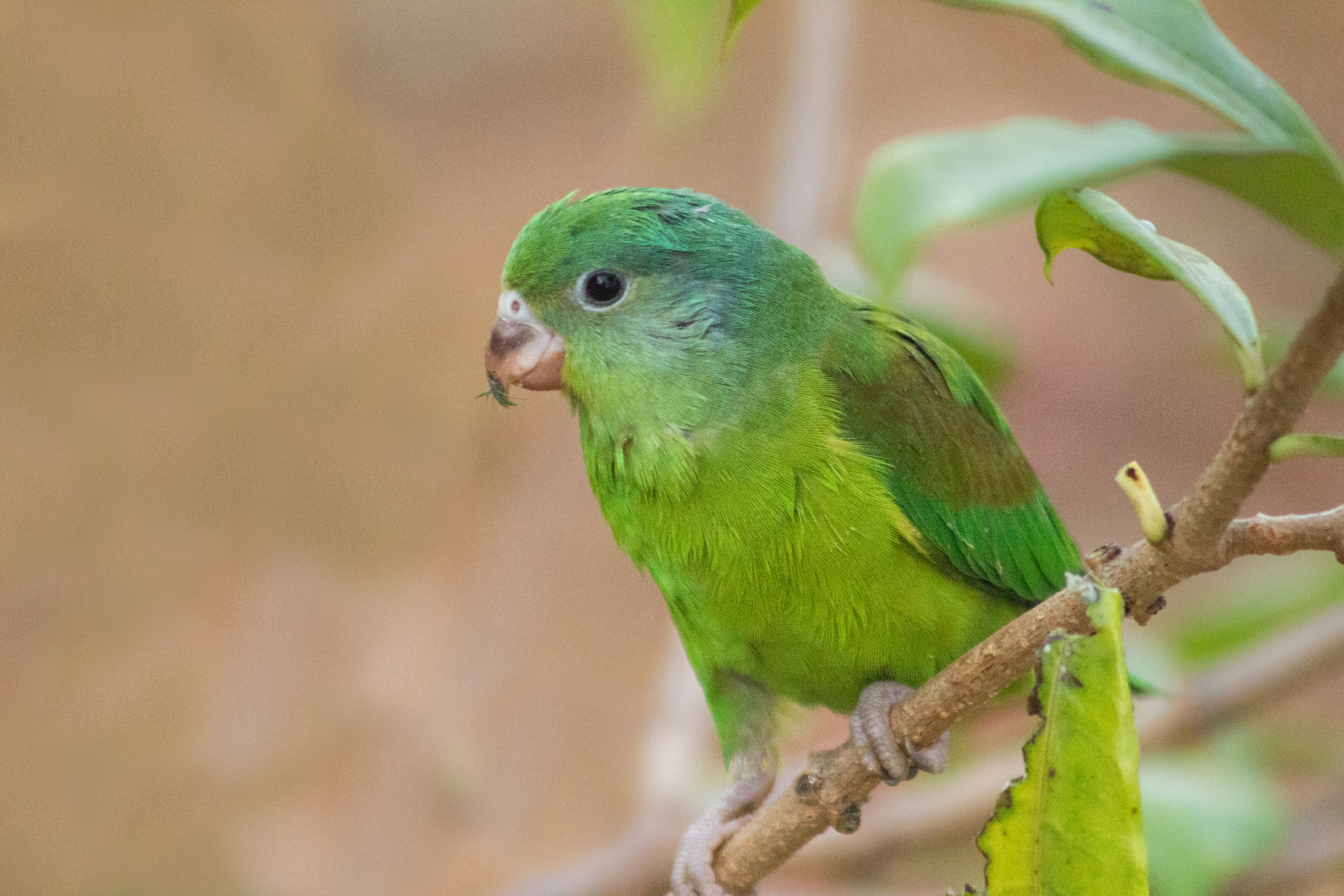 Orange-chinned Parakeet | Perico Ala Marrón (Brotogeris jugularis exsul)